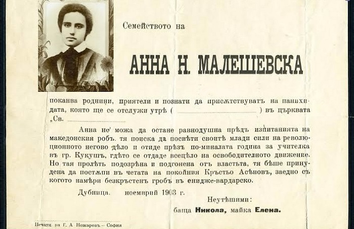 Ana Maleshevska teacher and revolutionary